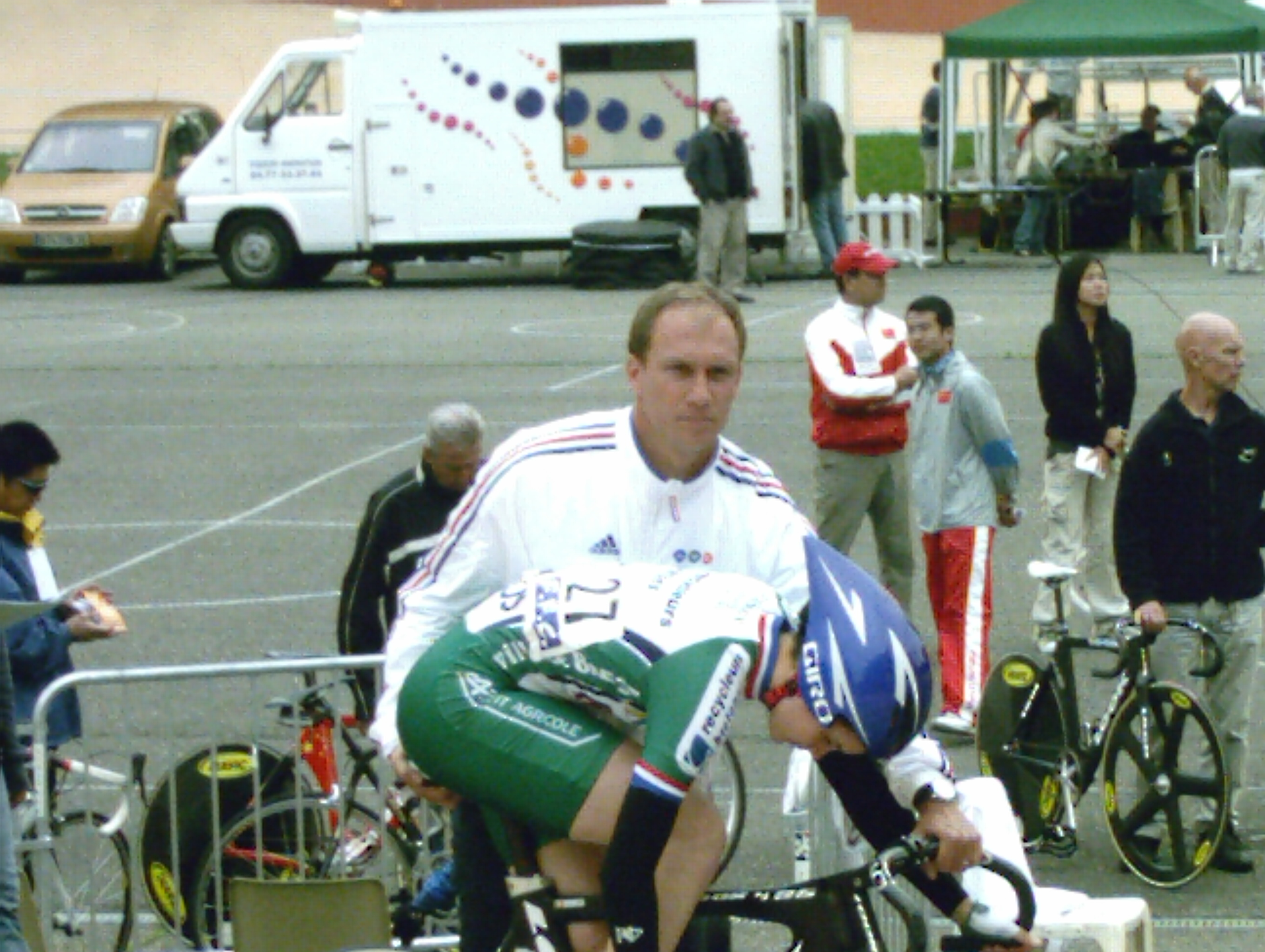 Florian Rousseau at the Parc de la tête d'Or (Lyon, France)